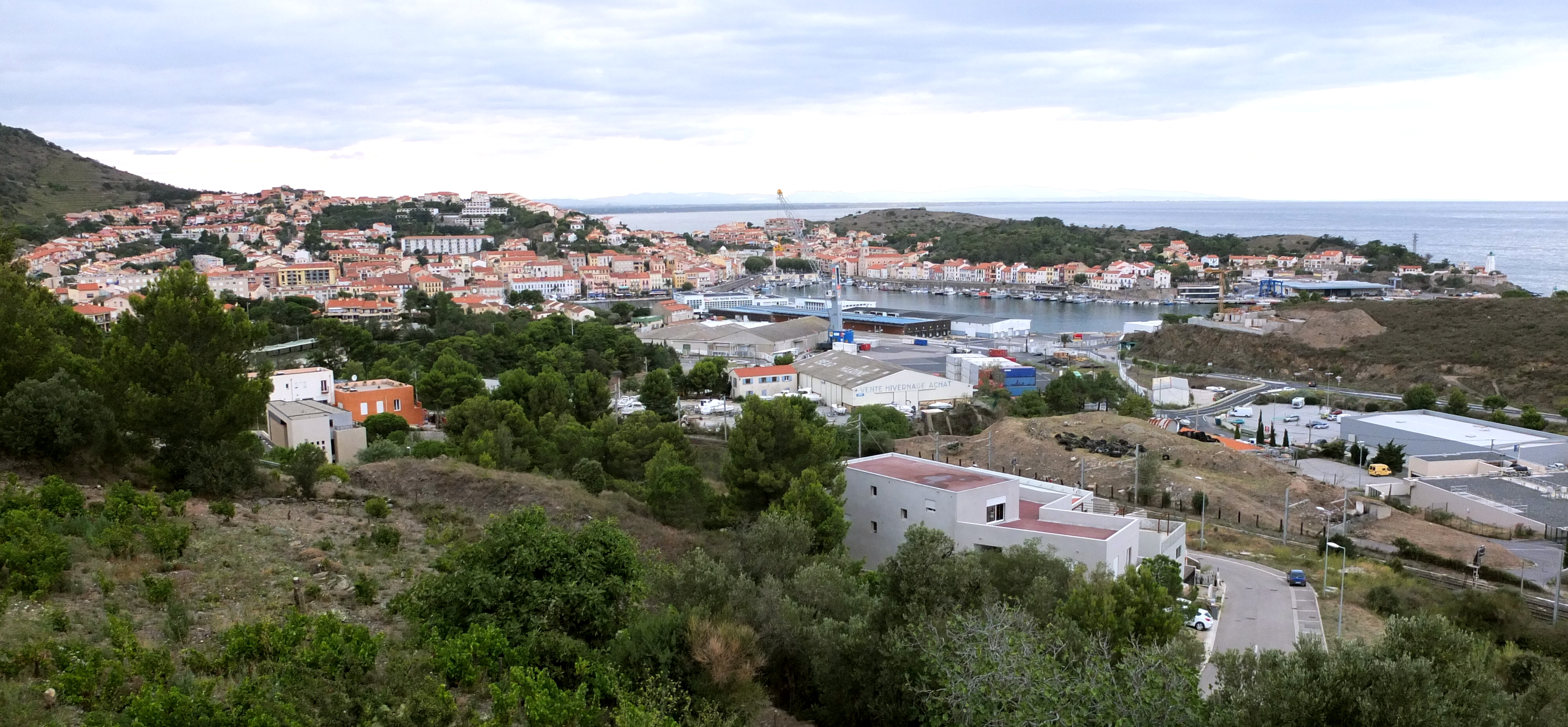 General view of Port-Vendres, Roussillon, France